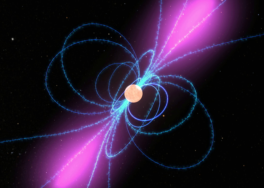 Clouds of charged particles move along the pulsar's magnetic field lines (blue) and create a lighthouse-like beam of gamma rays (purple) in this illustration.